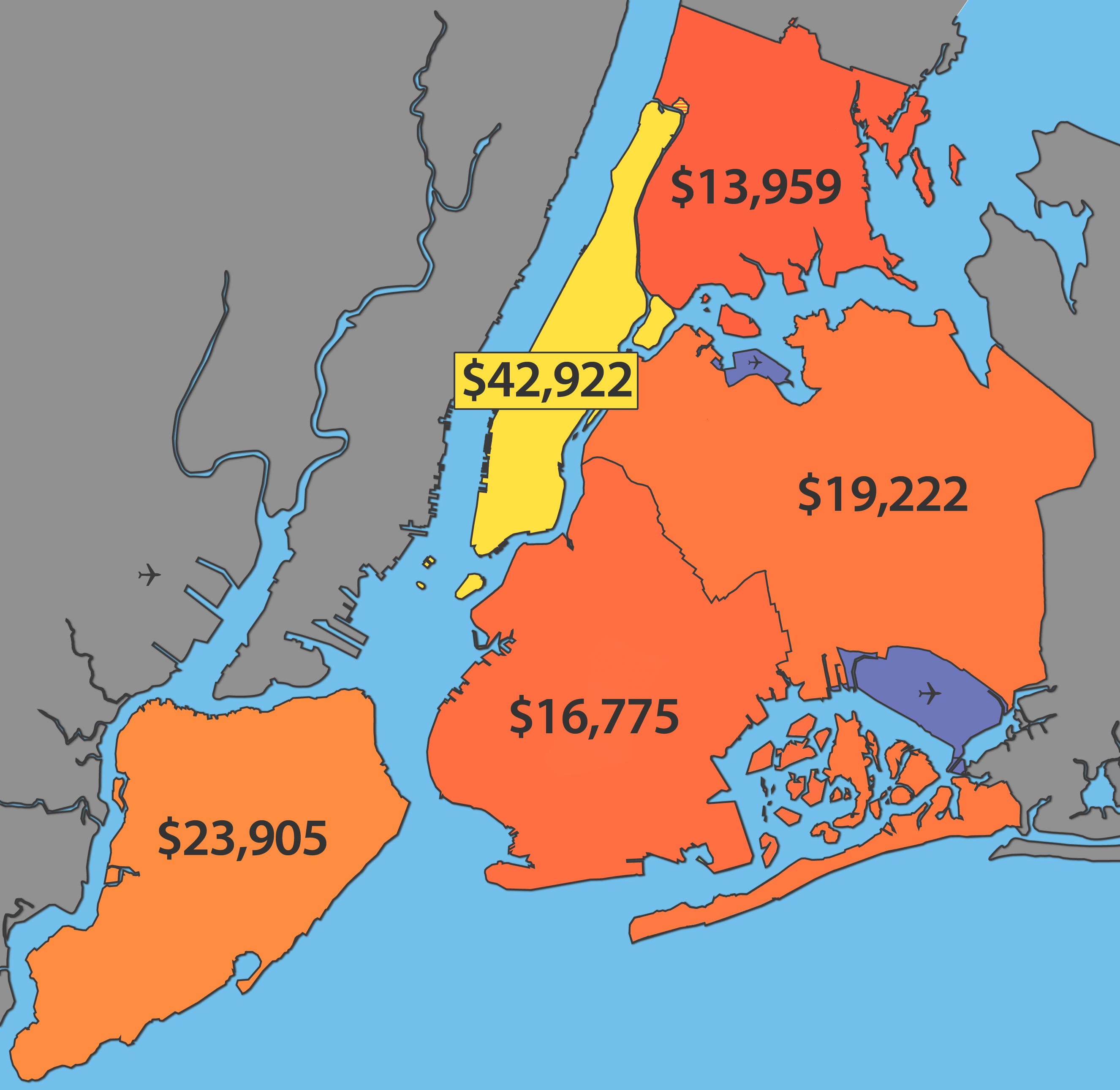 1999 New York City per capita income, by borough.